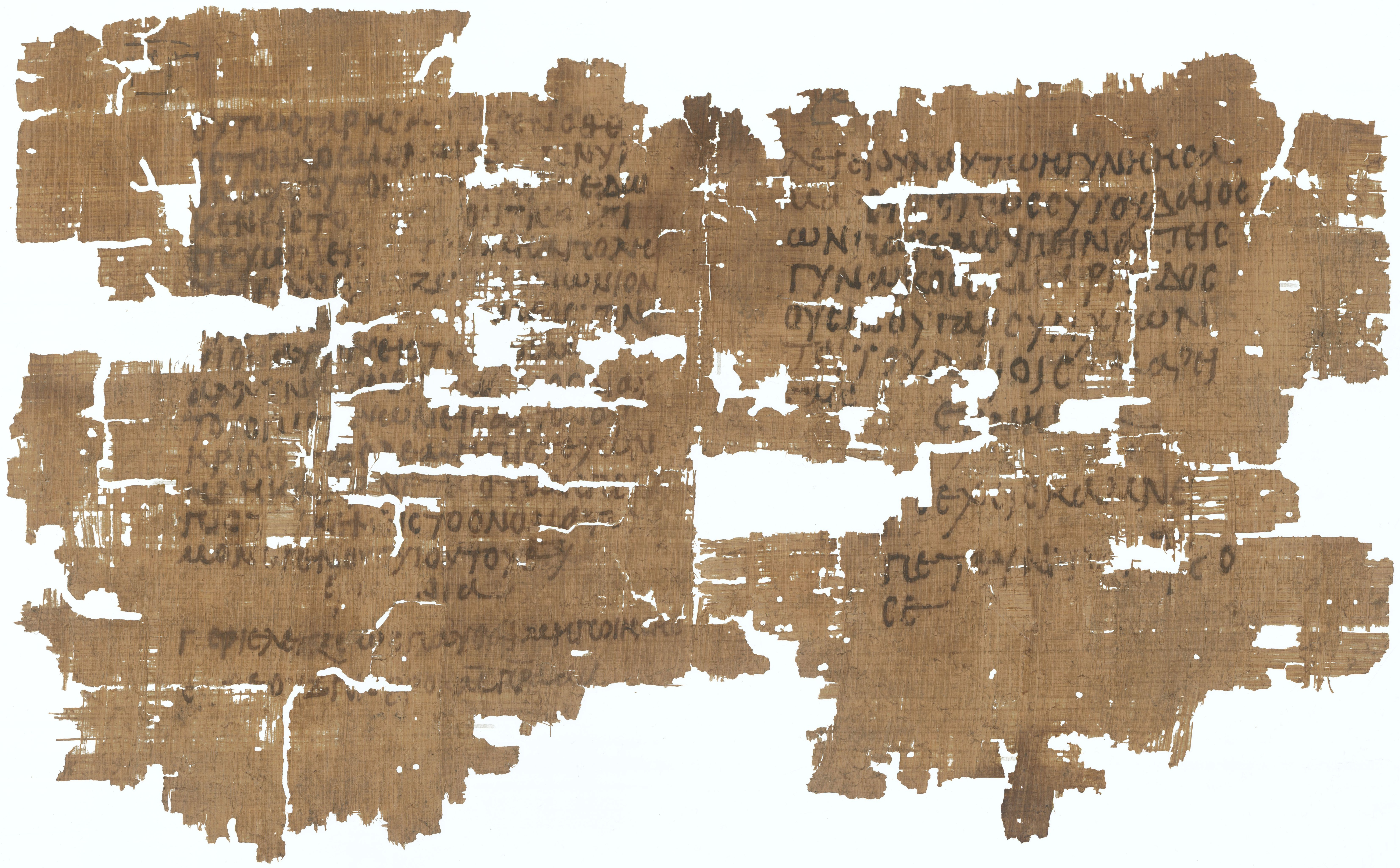 Papyrus 63 - Staatliche Museen zu Berlin inv. 11914 - Gospel of John 3:14-18 4:9-10 - verso